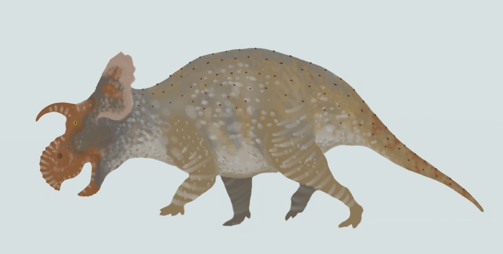 A reconstruction of Crittendenceratops